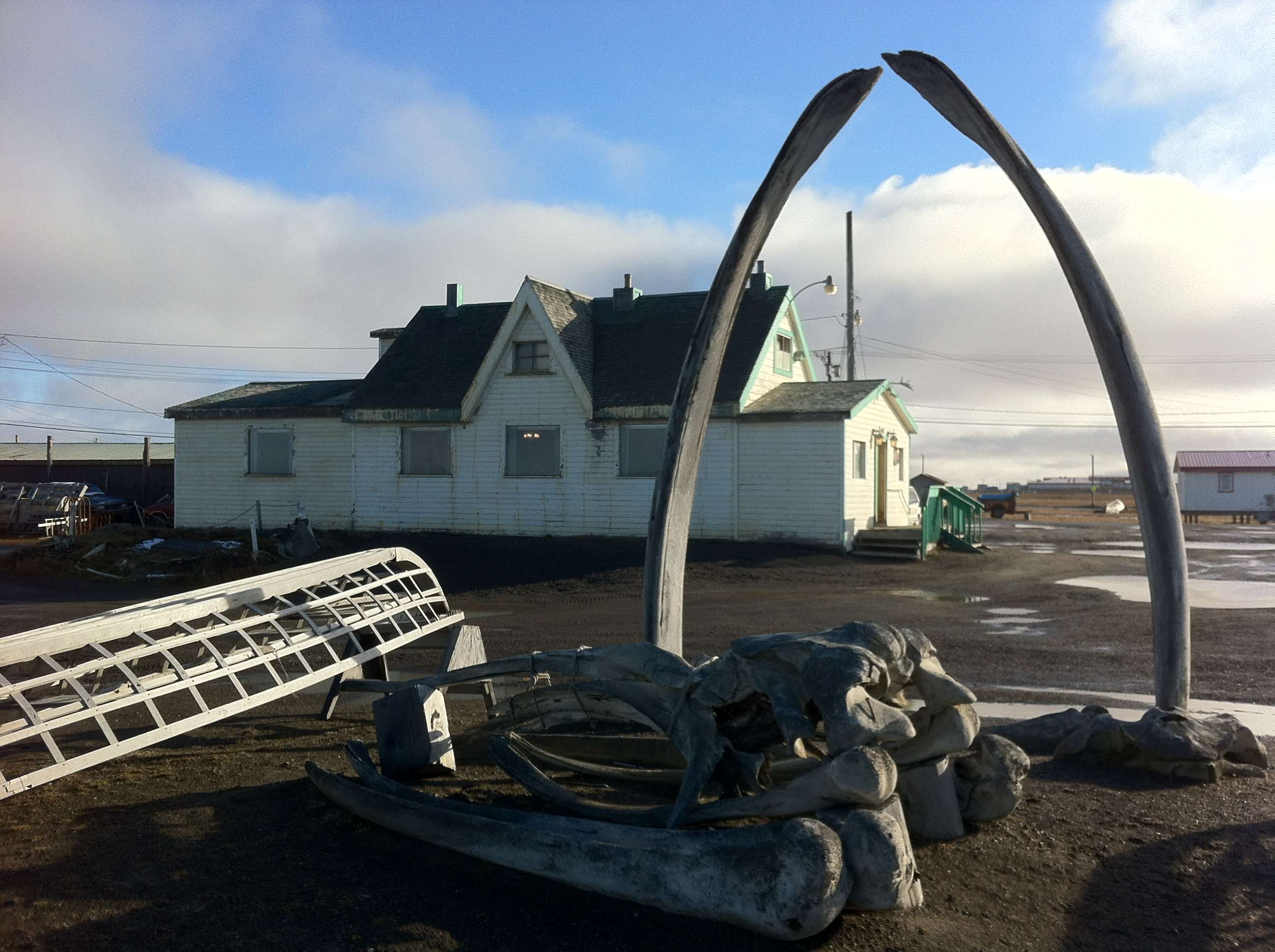 Point Barrow Refuge Station The building today is known as Brower's Cafe. The restaurant serves American and Korean food. Visible in the foreground are bowhead whale bones, the arch is specifically the whale's jaw. There is also the frame of an umiaq visible, which is a seal-skin boat, used for hunting the bowhead.